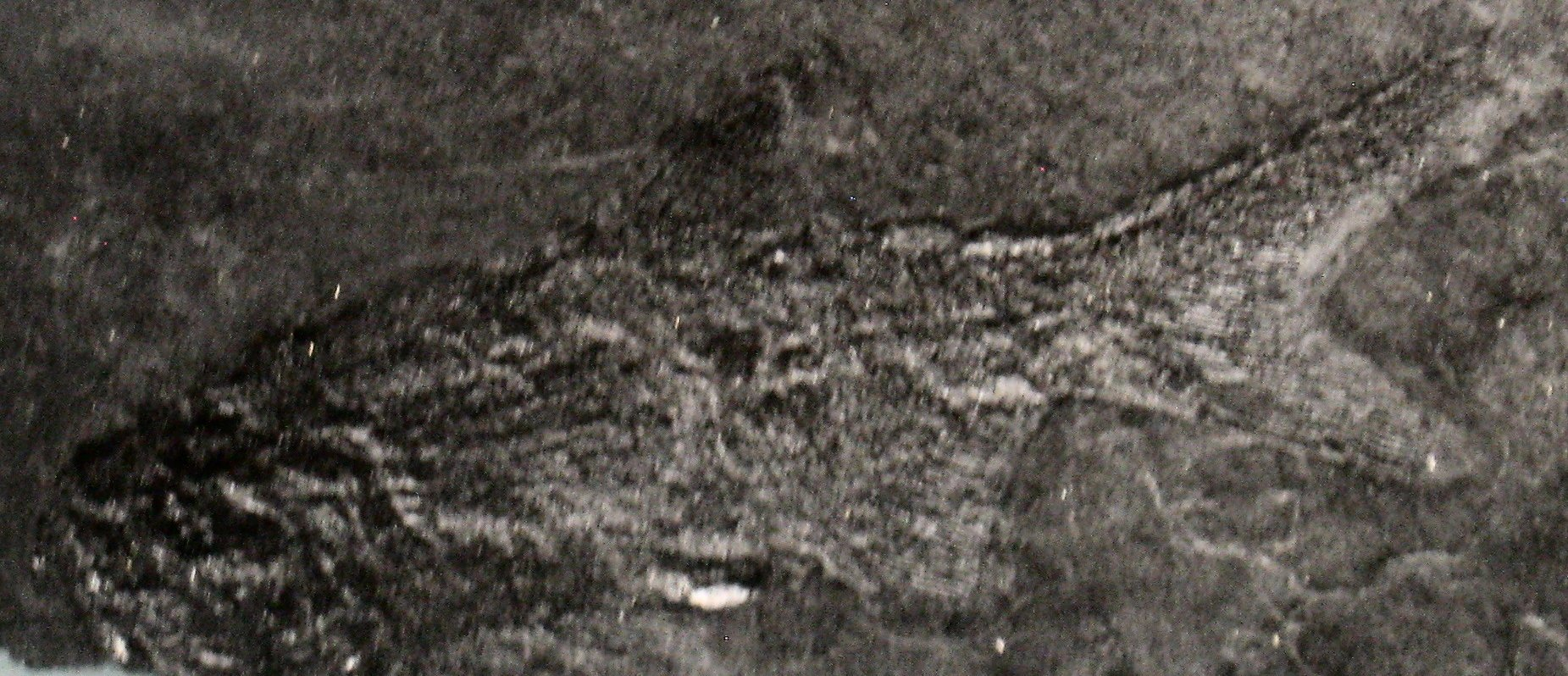 crop of file in file name